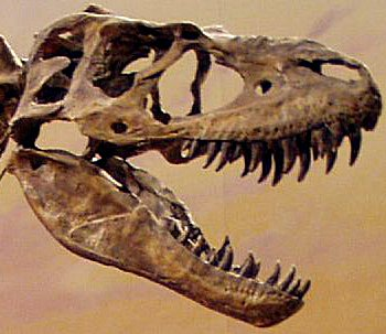 Skull of Gorgosaurus at the Royal Tyrrell Museum.